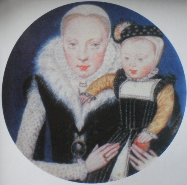 Catherine Grey, Countess of Hertford with her eldest son Edward Seymour, Lord Beauchamp.